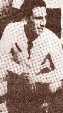 David Arellano in 1927